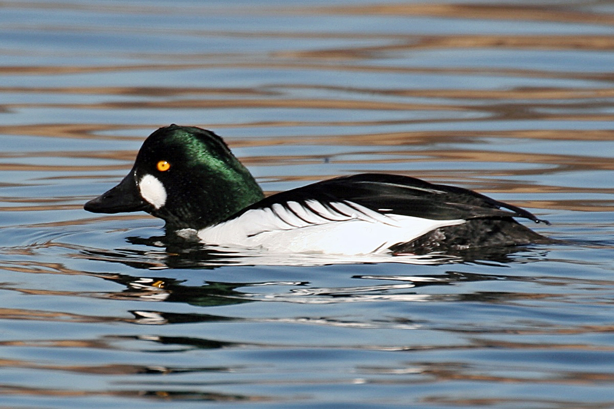 Common Goldeneye, Jan. 2006, Saitama JAPAN ; Japanese description:ホオジロガモ 2006年1月 埼玉県川本町 (投稿者自身による撮影)